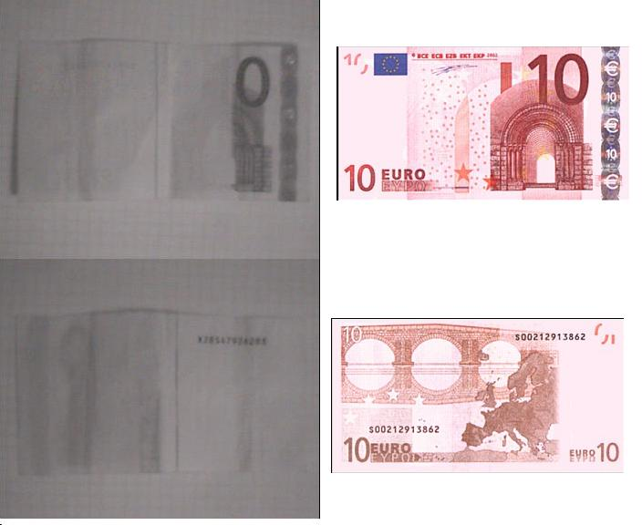 A ten euro note. Shot with a webcam that has no IR filter. But a visible light filter. So you can see the security marks. As a comparison on the right you see a ten euro note in visible light.